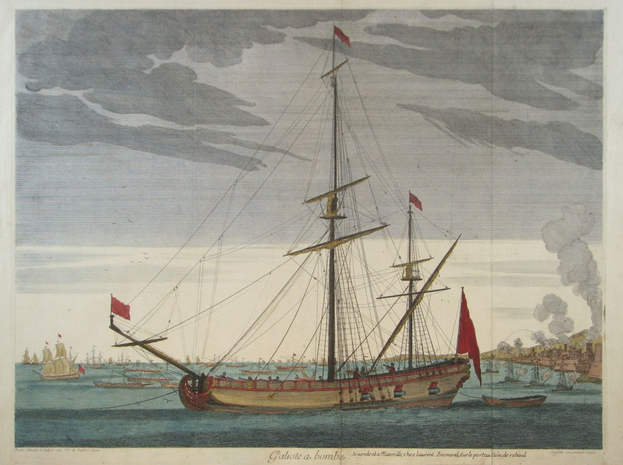 Engraving of a bomb ketch from Plan de Plusieurs Batiments de Mer avec leurs Proportions (c. 1690). Engraving by Claude Randon.